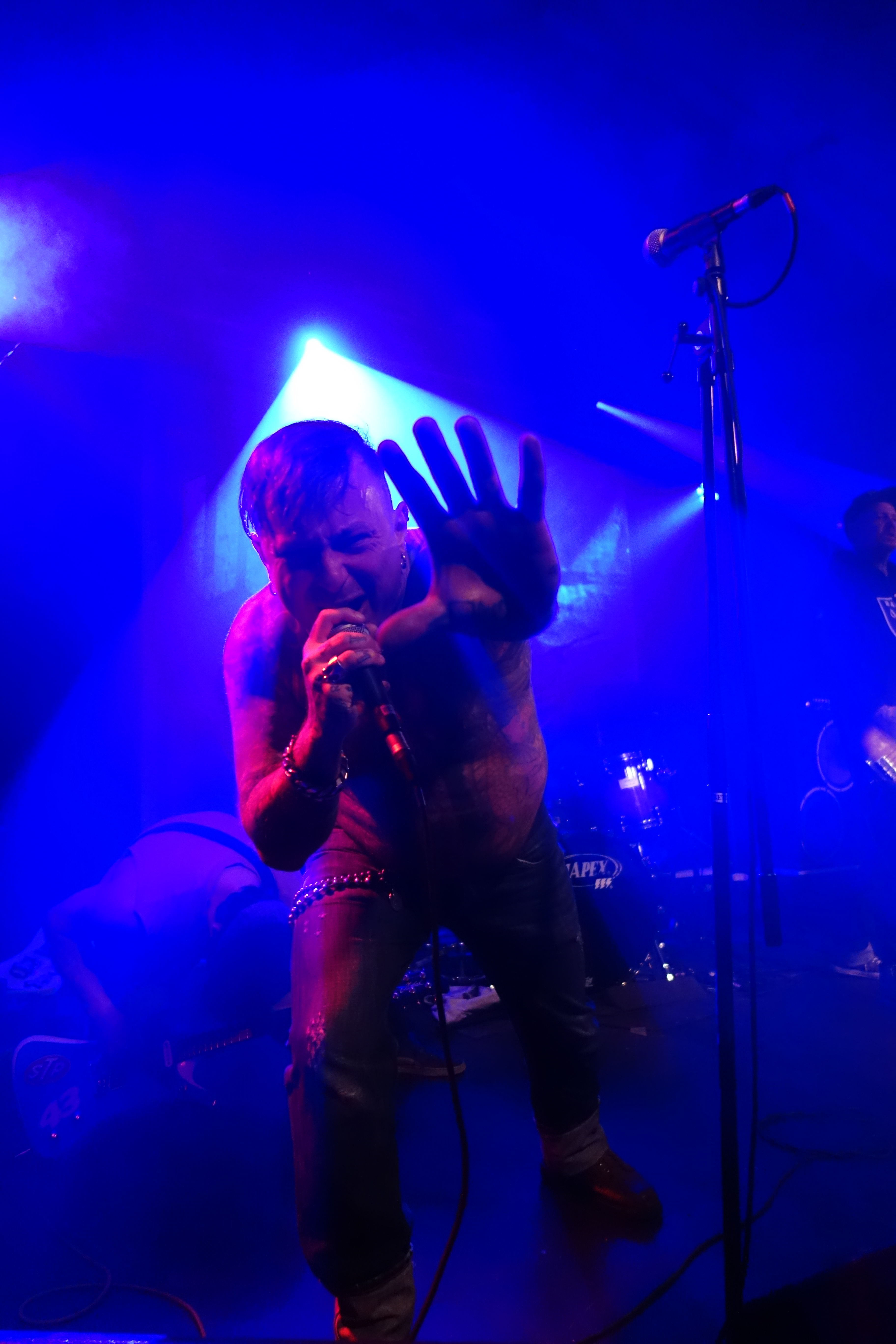 Lutz Vegas of V8 Wankers live at "Das Bett" Frankfurt 09th December 2016